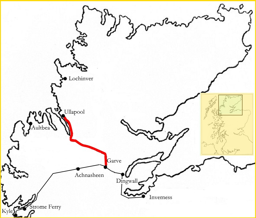 Shows the proposed route of Garve and Ullapool Railway; and existing route of Dingwall to Kyle of Lochalsh railway